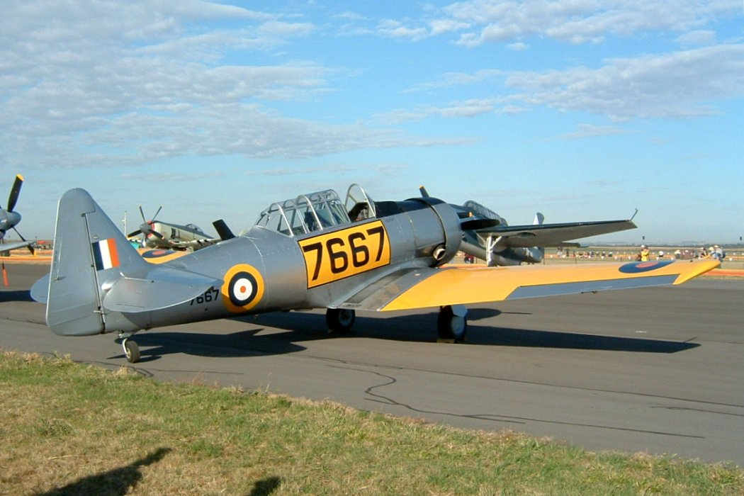 North American SNJ-4 Texan, ex-South African Air Force.